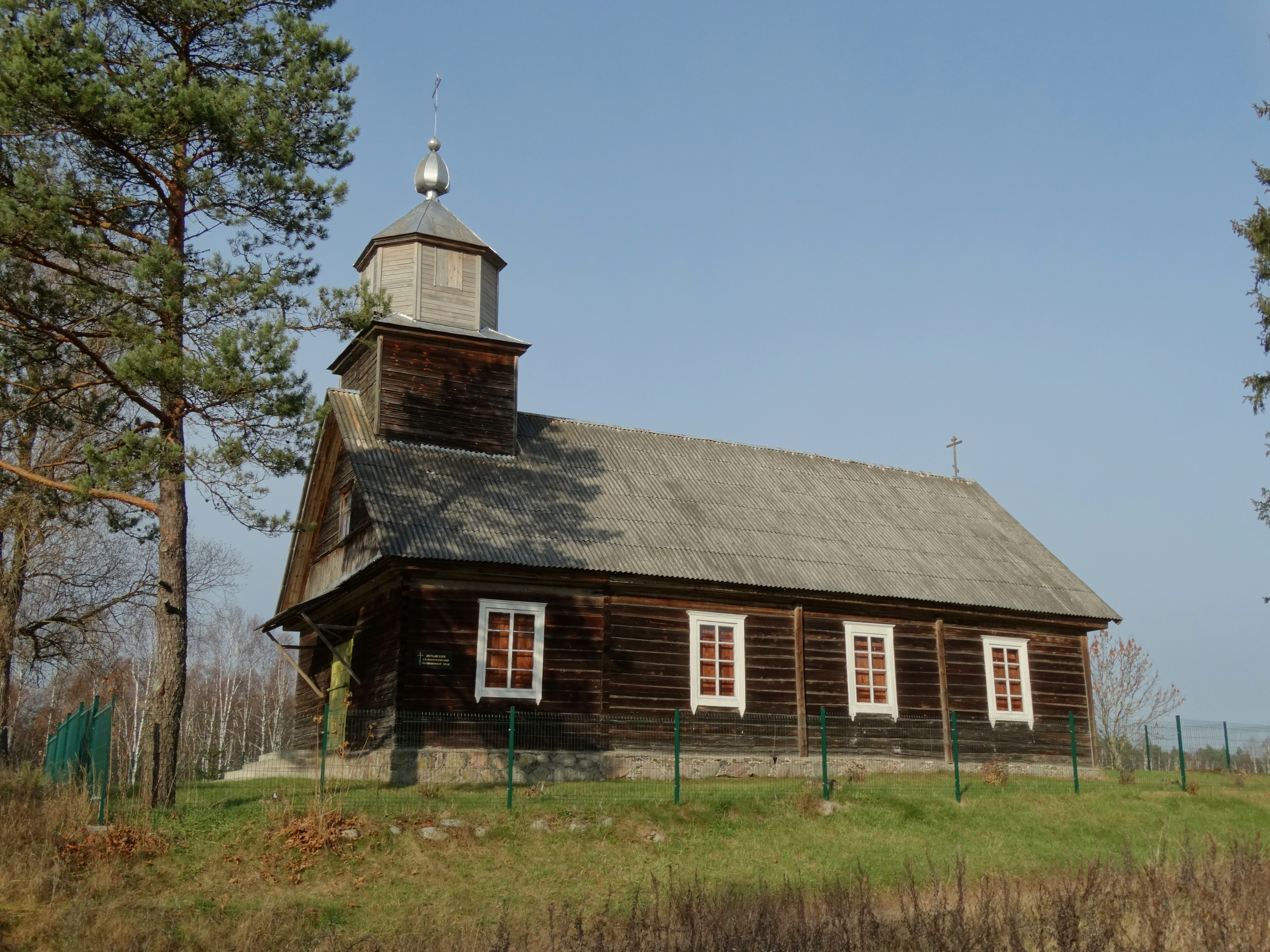 Nečėnai Old Believers Church, Utena district, Lithuania